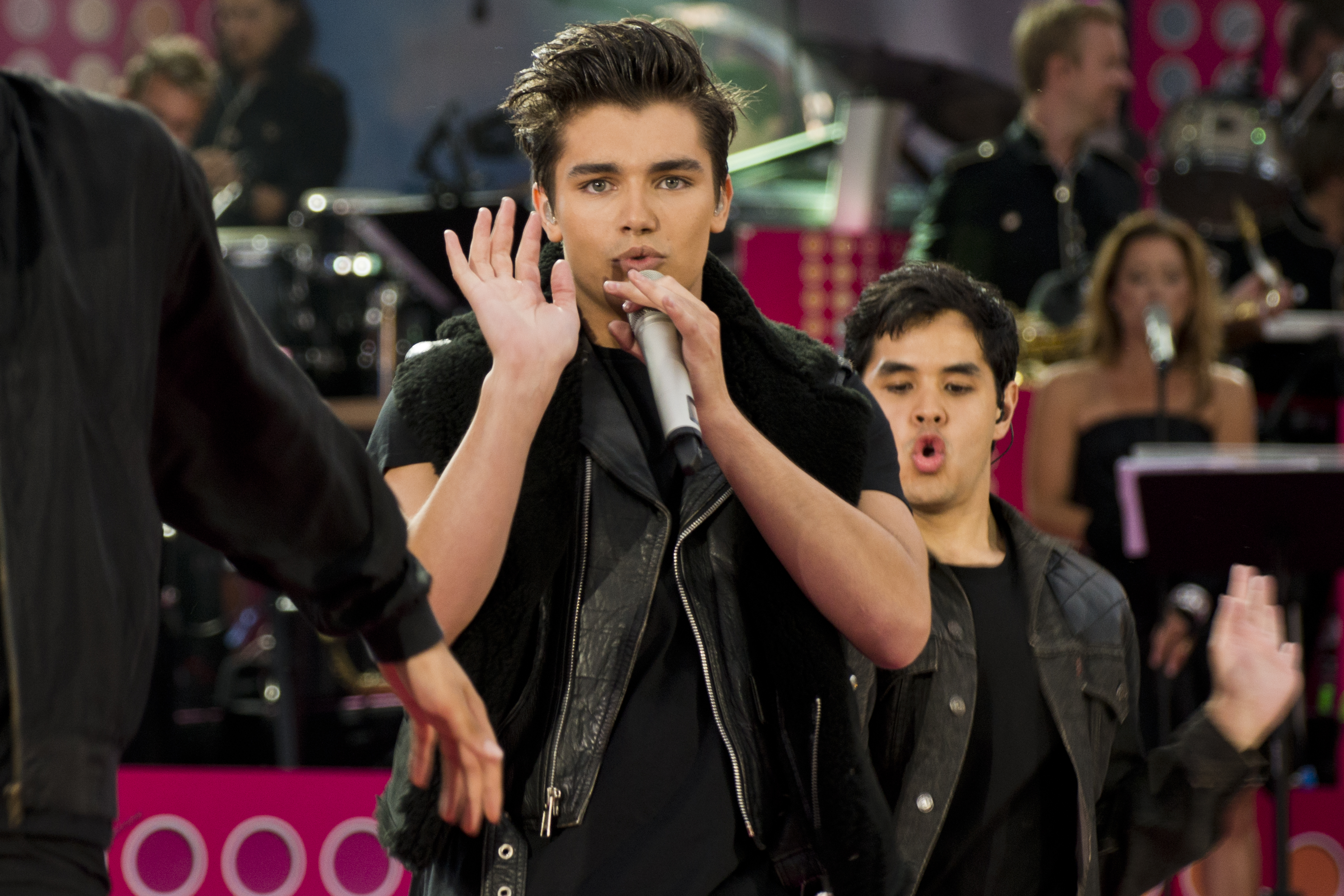 Anton Ewald at Sommarkrysset 2013